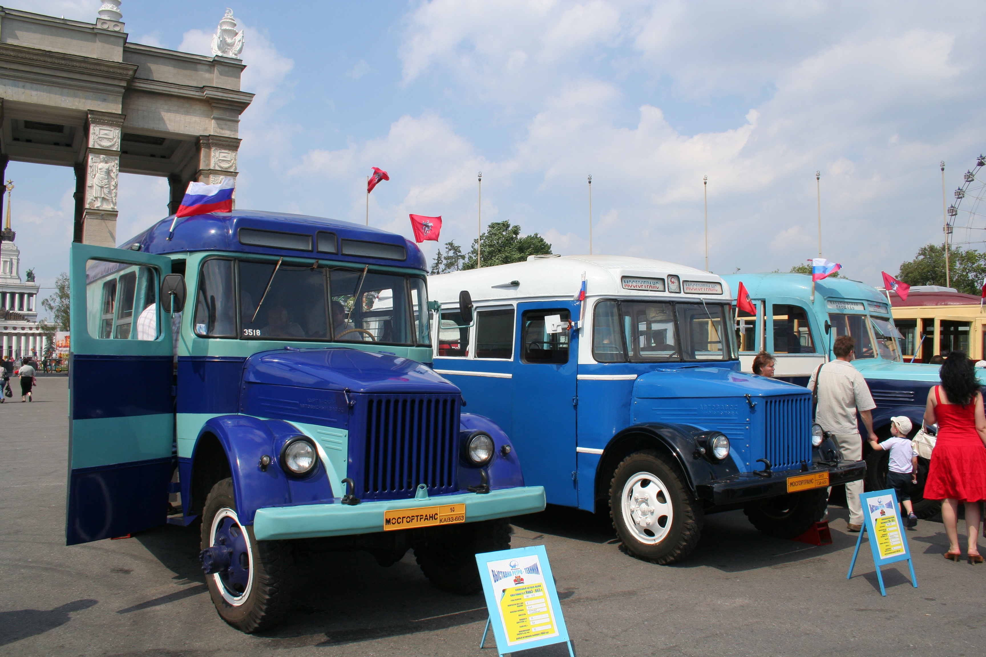 From left: KAvZ-663, GZA-651 and Aremkuz AKZ-1